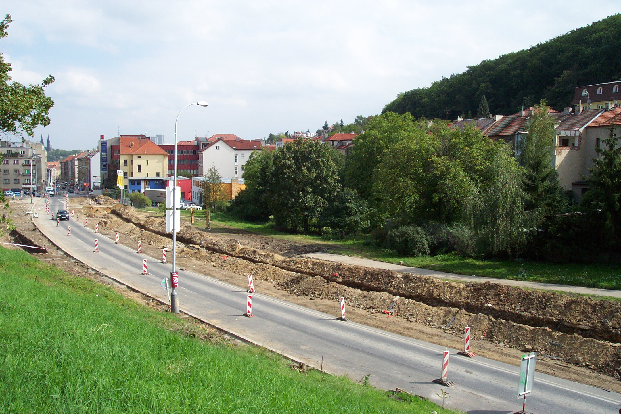 Tram track Laurová - Radlická (Prague,CZ), under construction